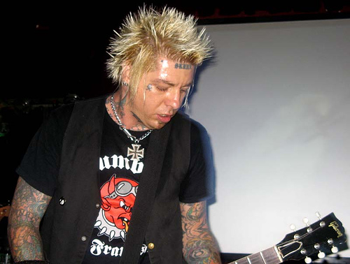 Lars Frederiksen photographed at the Newcastle Carling Academy 2007, during a live performance.